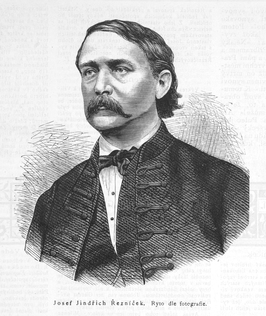 Portrait of Josef Jindřich Řezníček (1823-1880), Czech lawyer and writer.